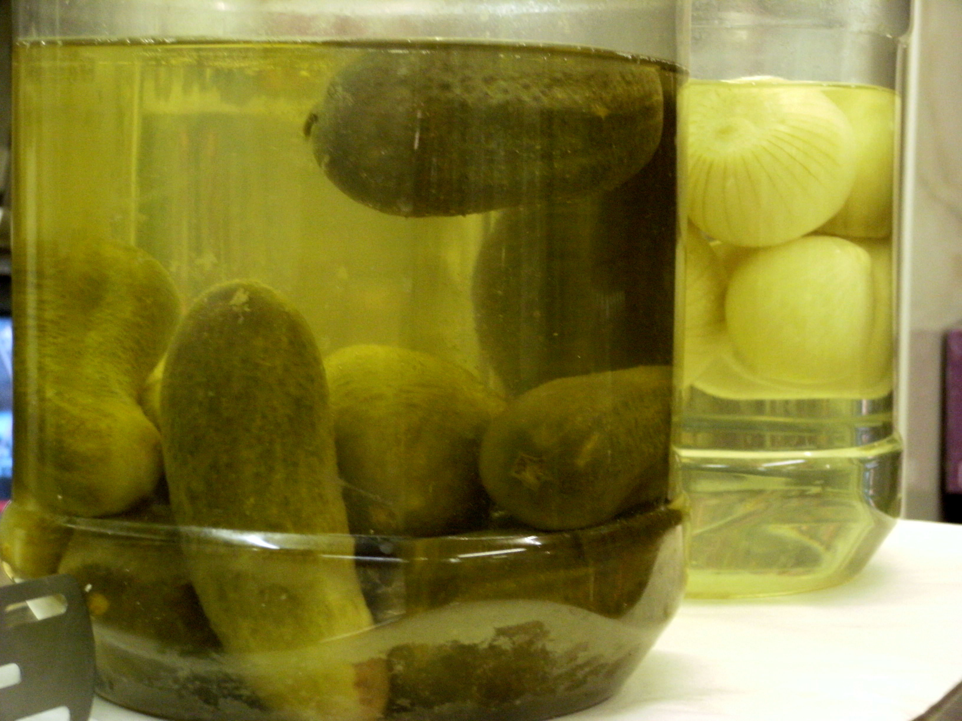 Pickled gherkins and onions in a chip shop on Holloway Rd, Holloway, London.